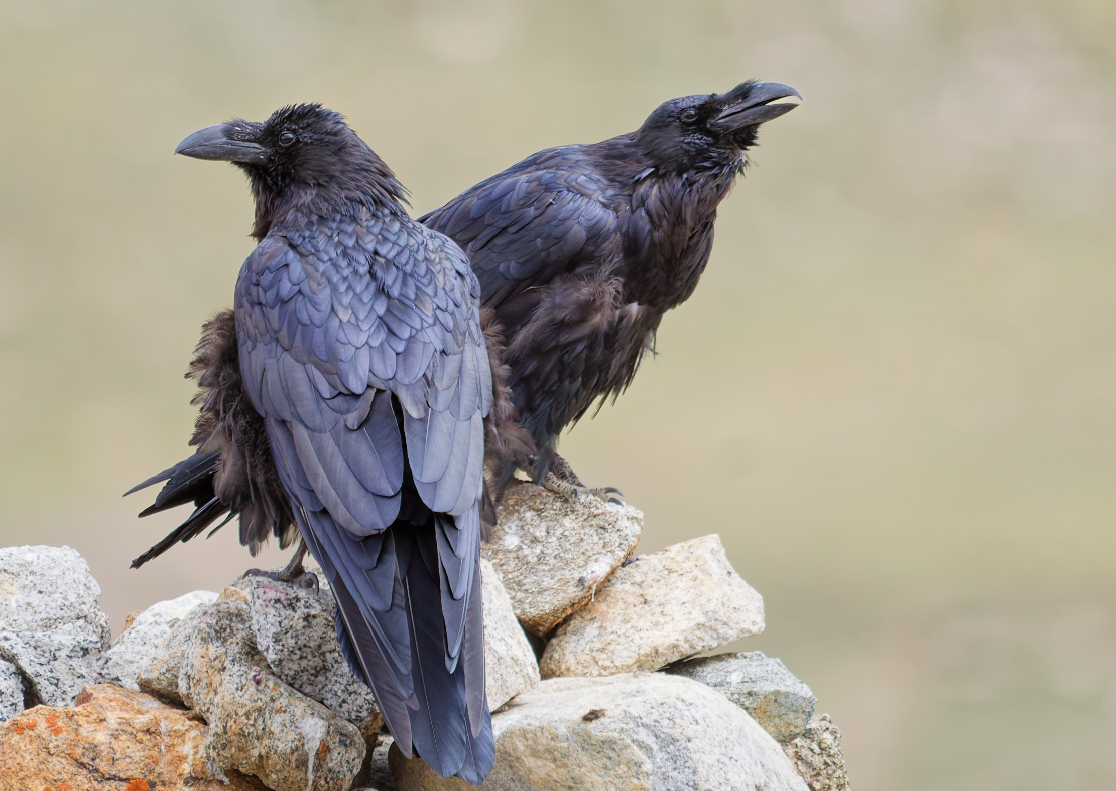 Northern Raven pair at North Pullu, Khardung la, India